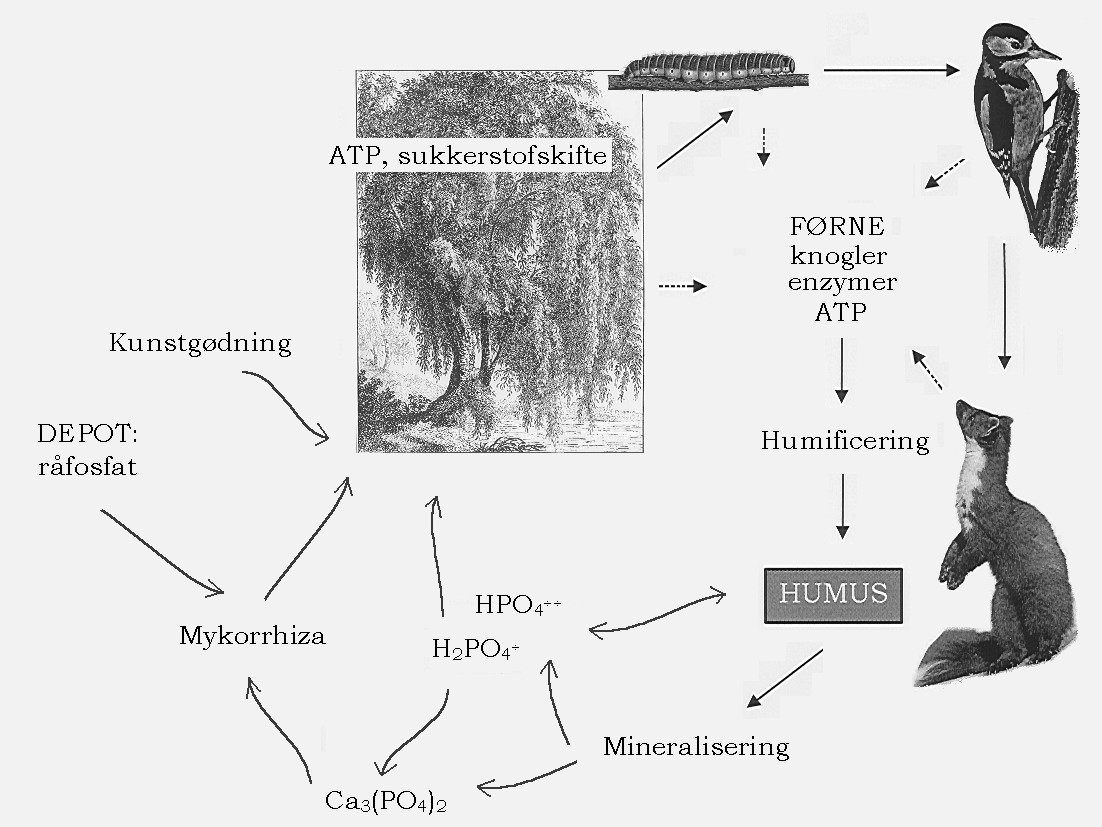 Phosphorus cycle